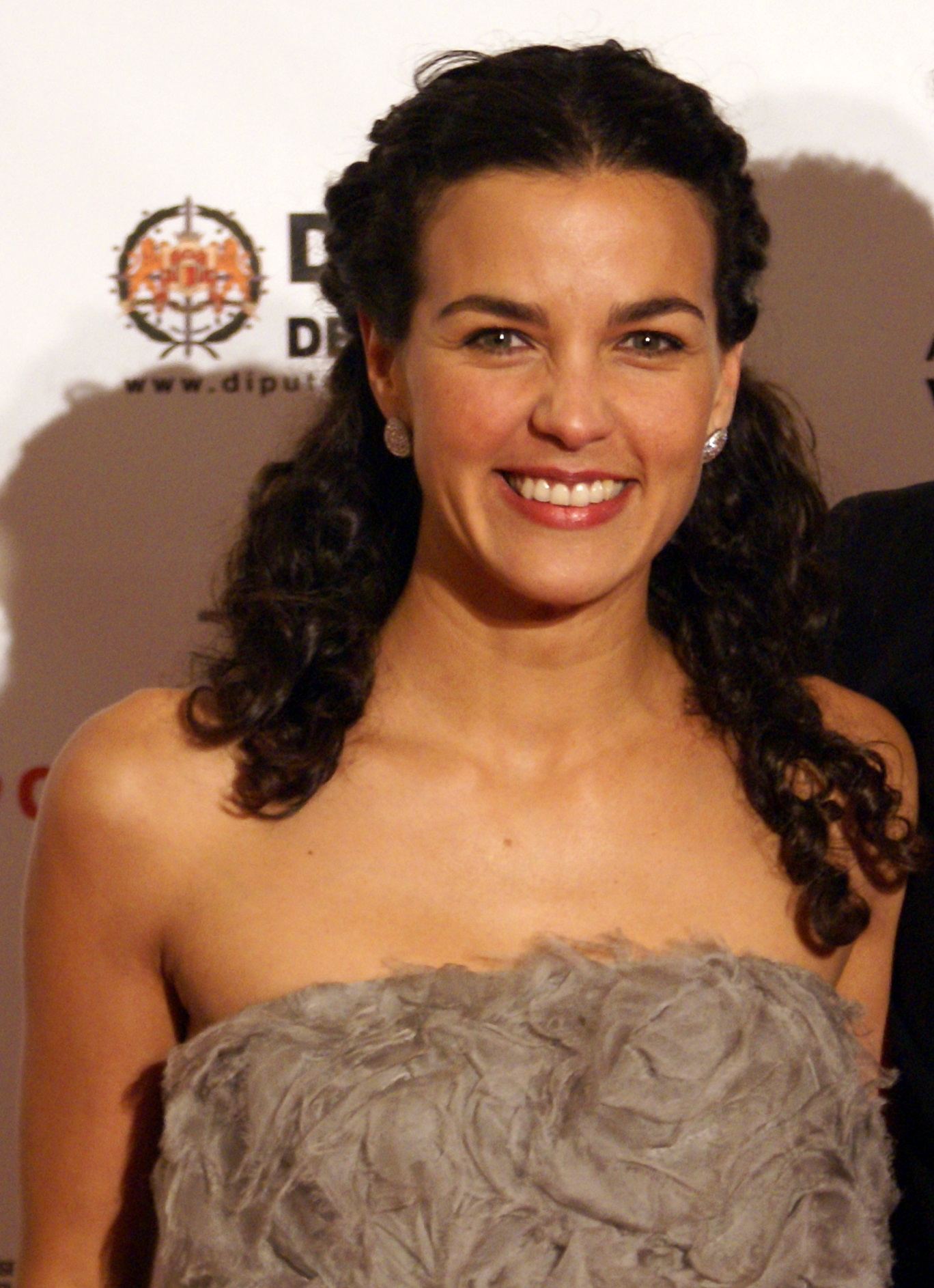 Carla Pérez, Spanish actress.